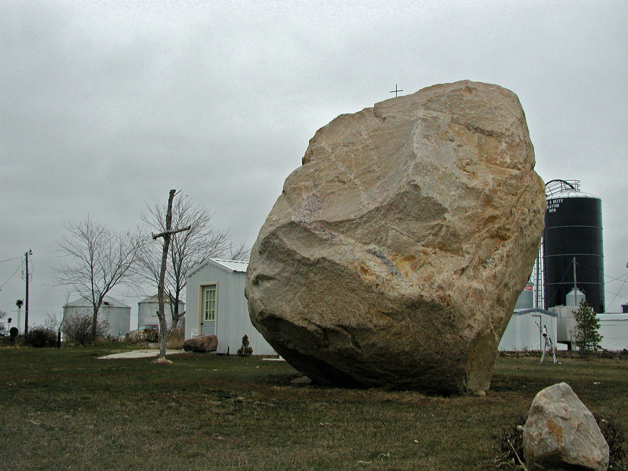 Large rock found in an Iowa corn field.